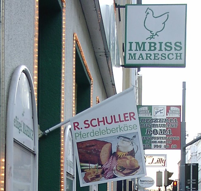 Image of a fastfood shop advertising Pferdeleberkäse (Leberkäse from horse meat) in Vienna/Austria. I took this image on 2006/12/11 with an Olympus Camedia E-100RS digital camera.